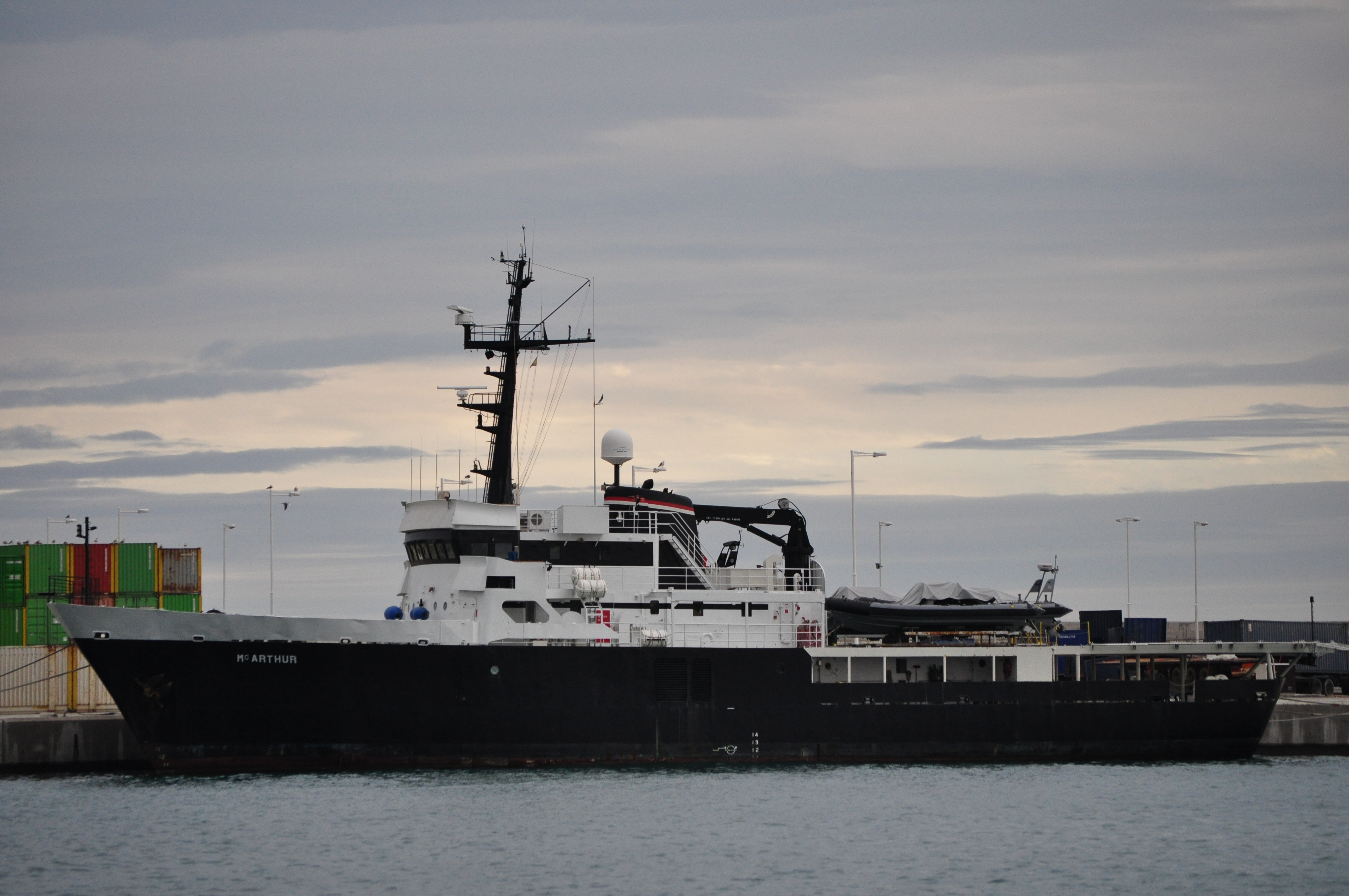 MV mc Arthur lying in port of Alicante/Spain. IMO Number: 6602082 MMSI Number: 367165910 Callsign: WDD5930 Length: 53 m Beam: 12 m